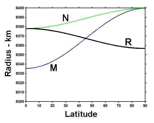 Three different radii as a function of Earth's latitude. R is the geocentric radius; M is the meridional radius of curvature; and N is the prime vertical radius of curvature.